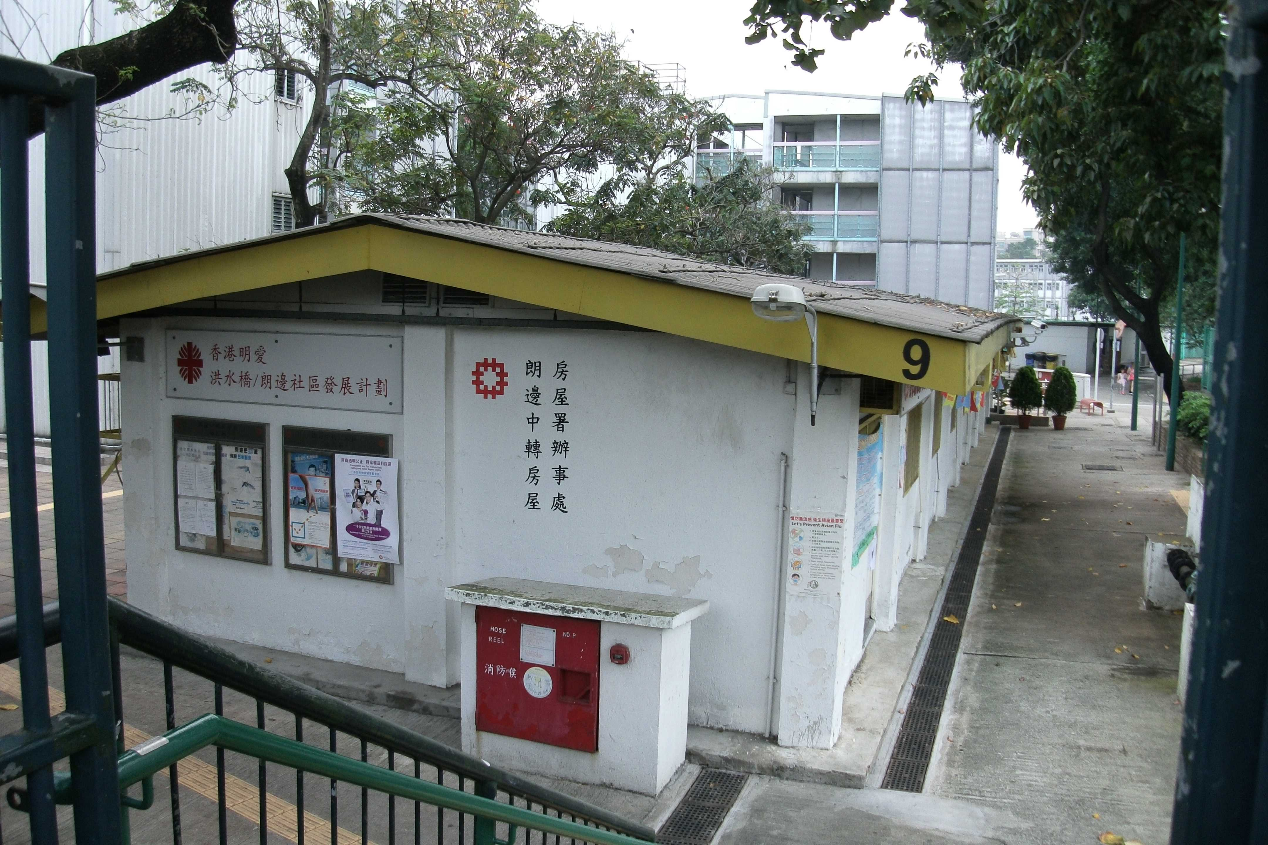 Management office of Long Bin Interim Housing